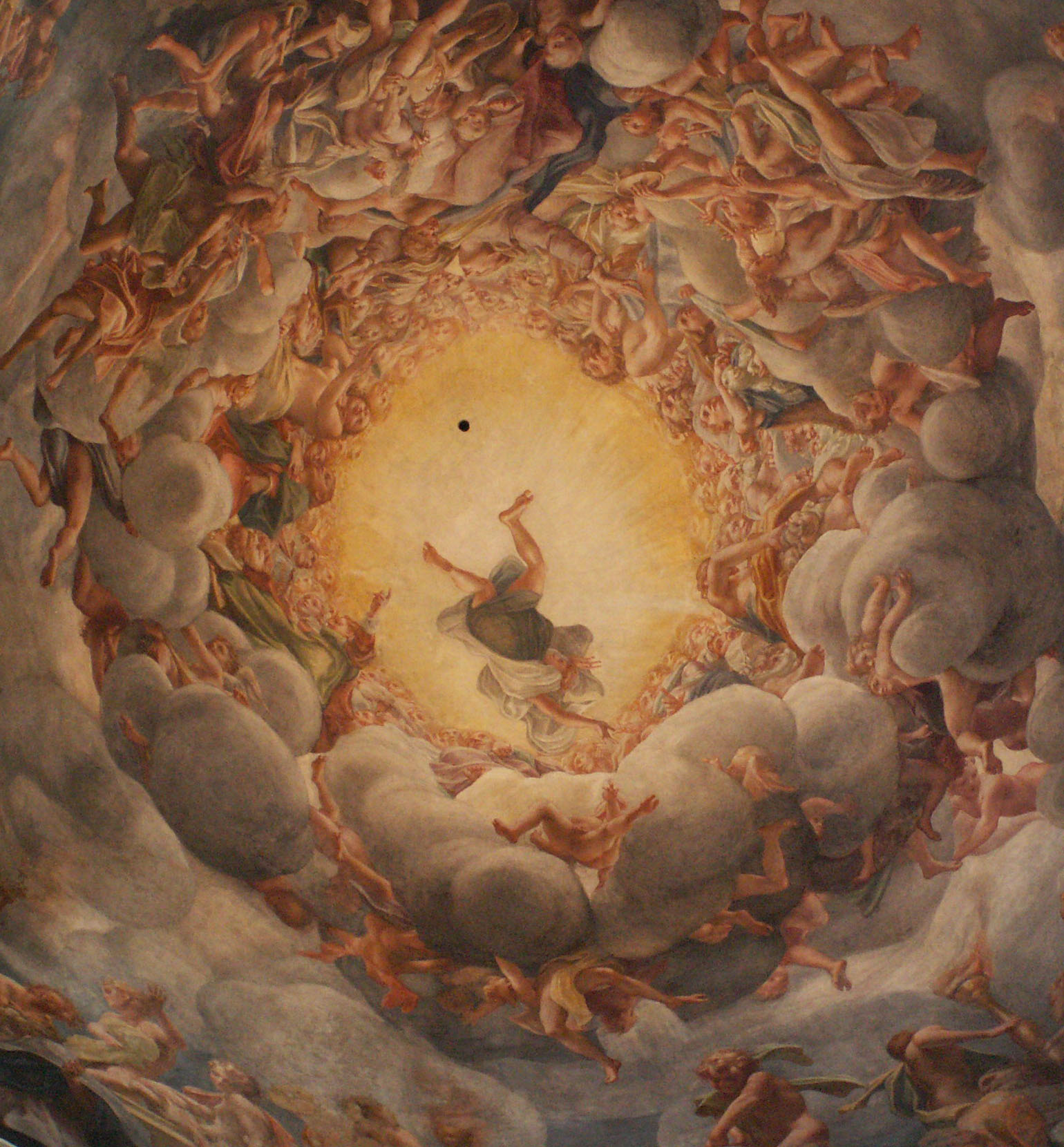 Cathedral dome, Parma, Italy